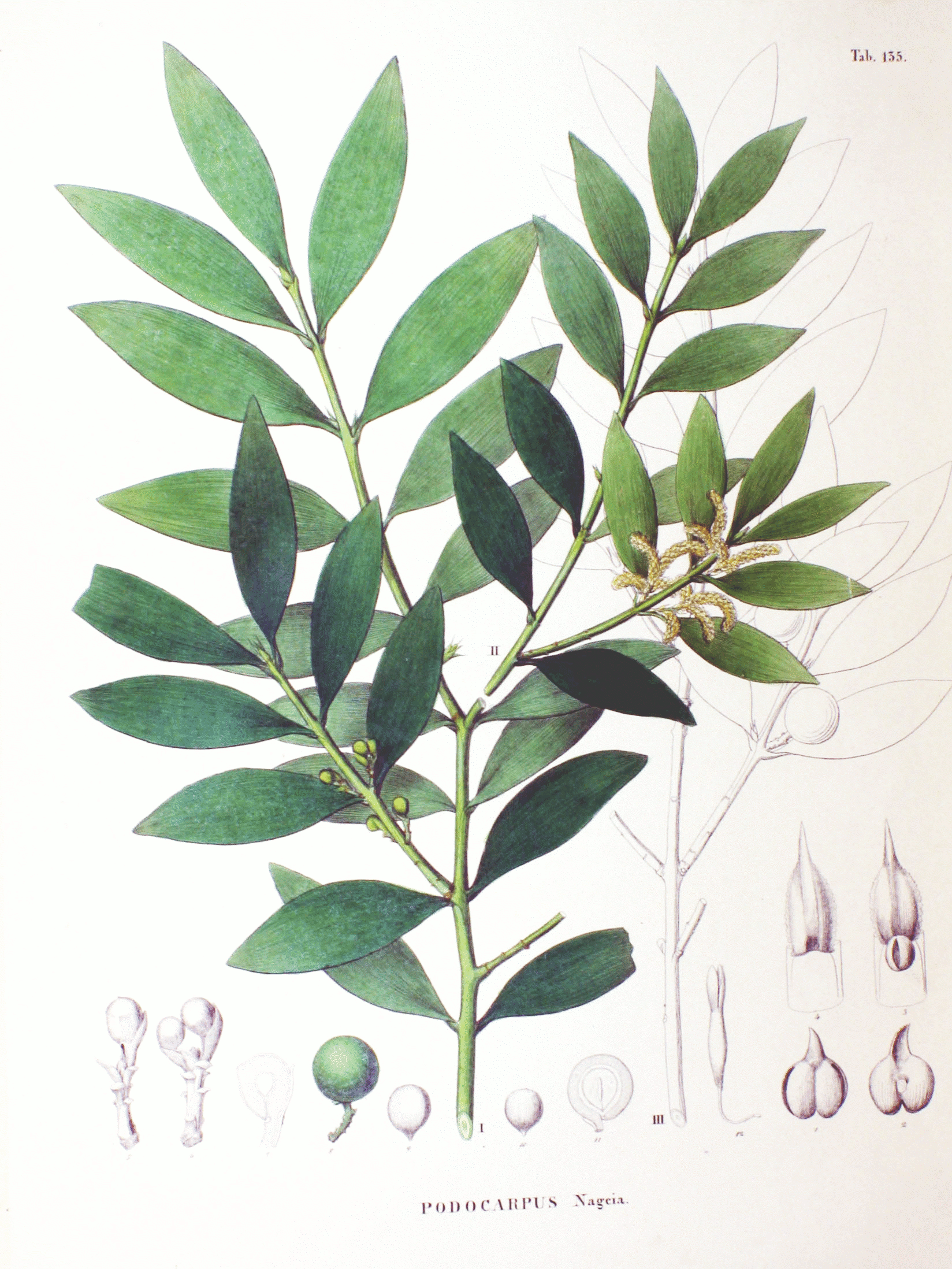 Nageia nagi (syn. Podocarpus nageia) plate from book